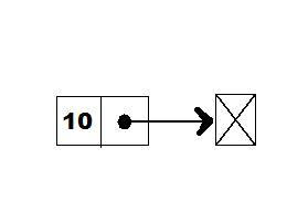 this photo has been made using paint.it shows a single node.